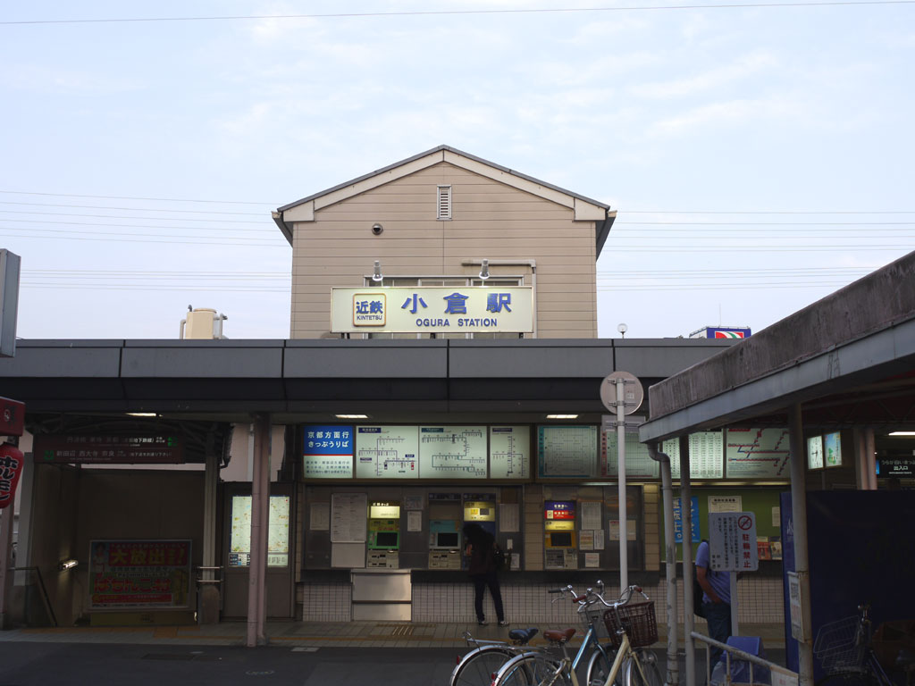 Kinki Nippon Railway Kyōto Line Ogura Station West Entrance